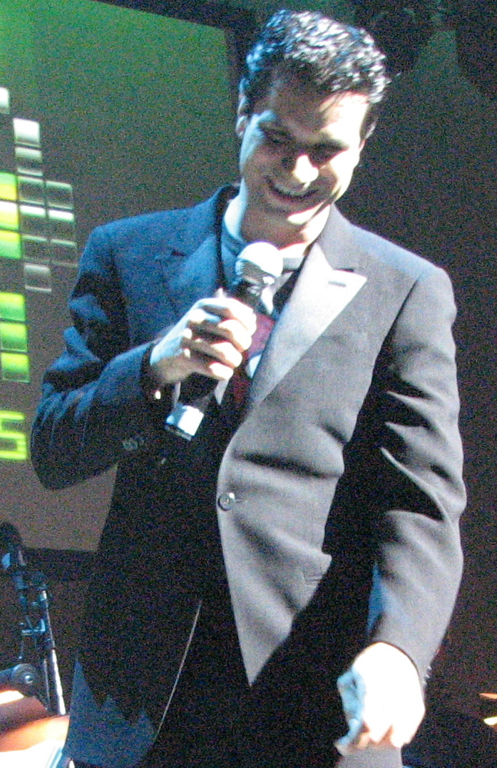 Tommy Tallarico at a Video Games Live concert in Toronto, Canada on September 1, 2006.